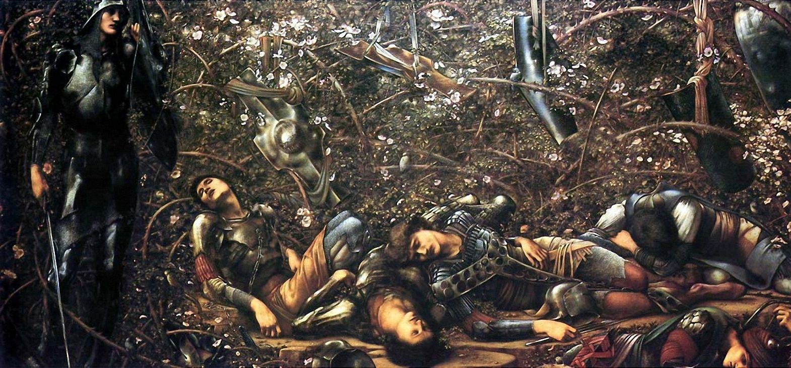 "The Briar Wood" from the "Legend of Briar Rose" by Sir Edward Burne-Jones, located at Buscot Park, Oxfordshire.